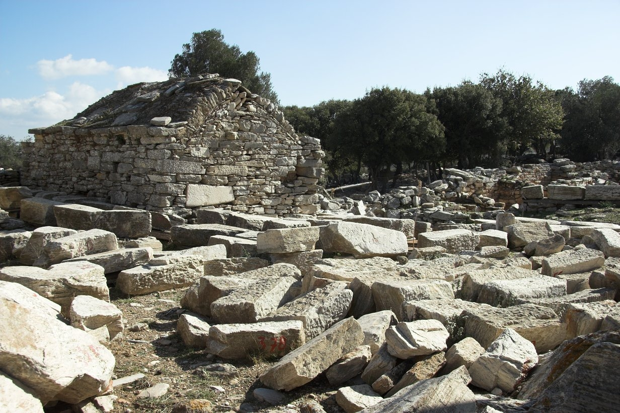 Near Pyrgos Chimarrou on Naxos.